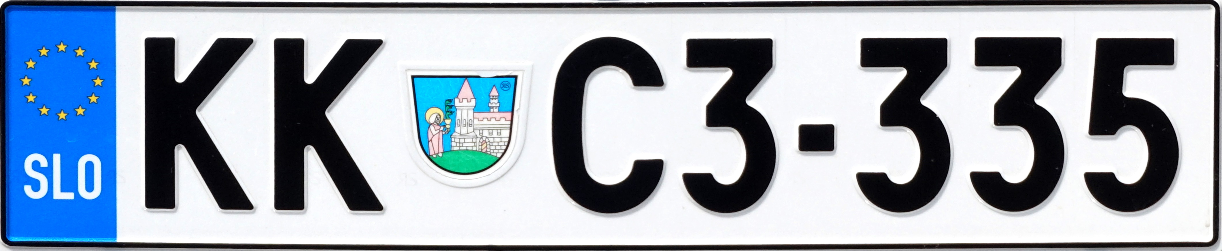 Slovenian license plate with the sticker of Krško administrative unit. 2004-2008 series plate.